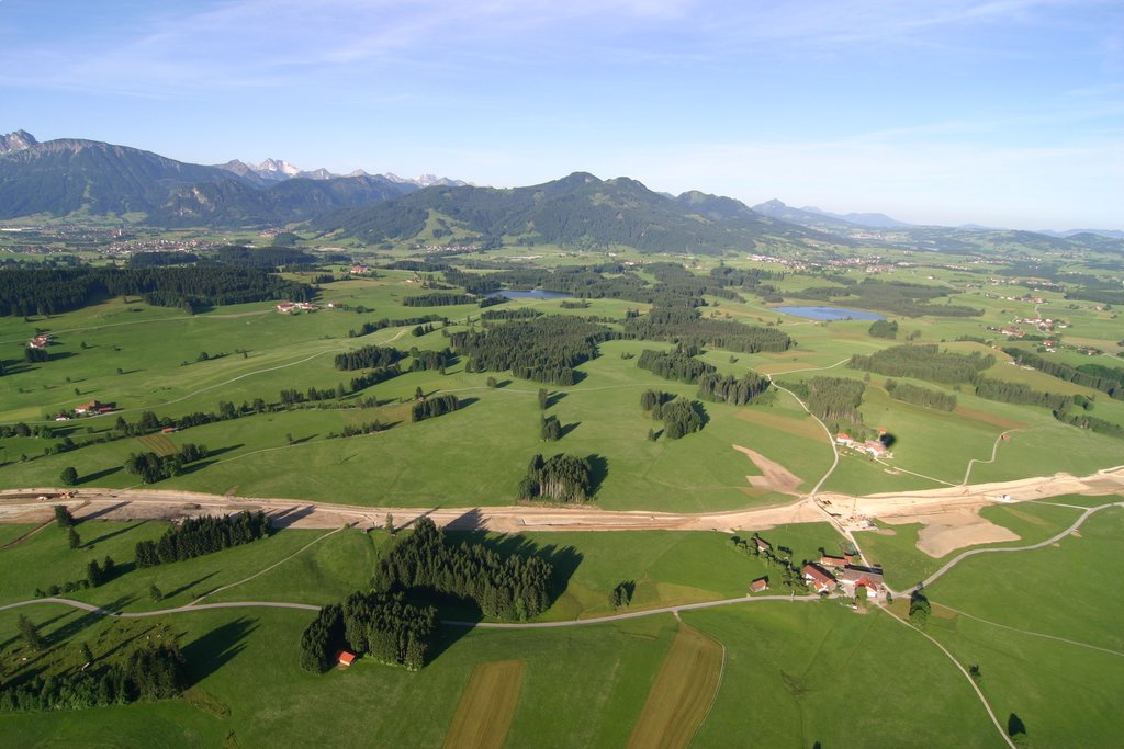 Aerial photograph above the construction of the german highway Bundesautobahn 7 with view to the west on Allgäu and Allgäu Alps.